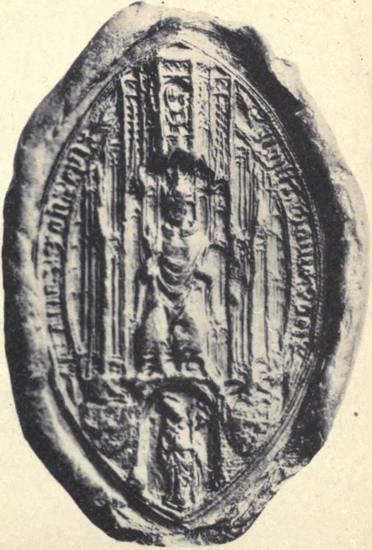 Seal of Thomas de Brantingham (d.1394), Bishop of Exeter 1370-94. Source: Hingeston-Randolph, Rev. F.C., Register of Thomas de Brantyngham, Part I, London, 1901, frontispiece[1]. Below a large enthroned figure of a king holding a sceptre (Edward III (1327-1377) or Richard II (1377-1399)), with elaborate gothic canopy above, is a small standing figure of the Bishop, with mitre and crozier, looking upwards to the king, with two shields on either side, the right-hand one of which appears to show his personal coat of arms Sable, a fess embattled between three Catherine Wheels or. In an arched niche above the king appears to be a tiny figure of the Virgin Mary holding the infant Jesus. )